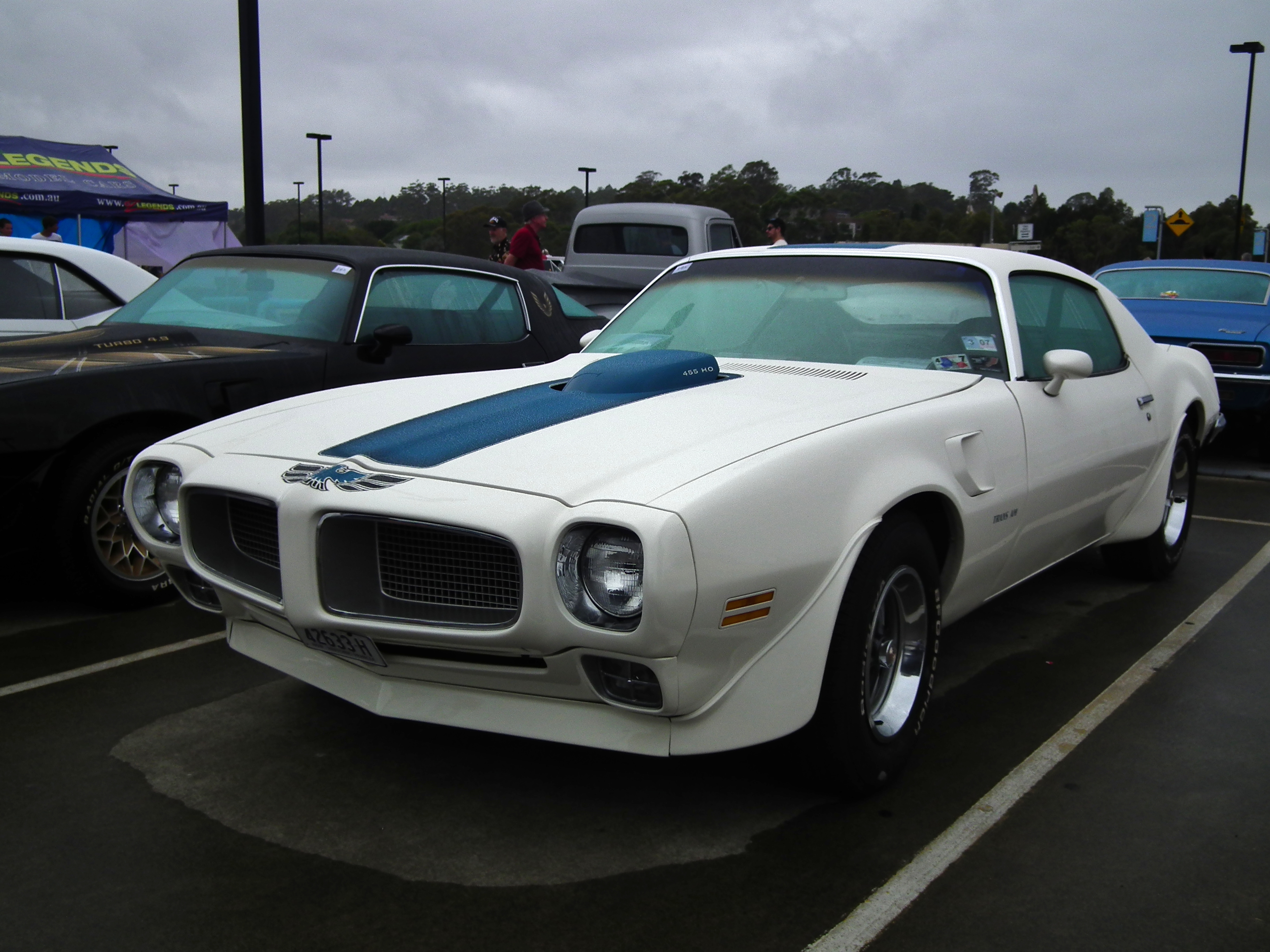 1971 Pontiac Firebird Trans Am coupe. Taken at the 2013 New South Wales All American Day, held at Castle Towers Shopping Centre, Castle Hill, Sydney.